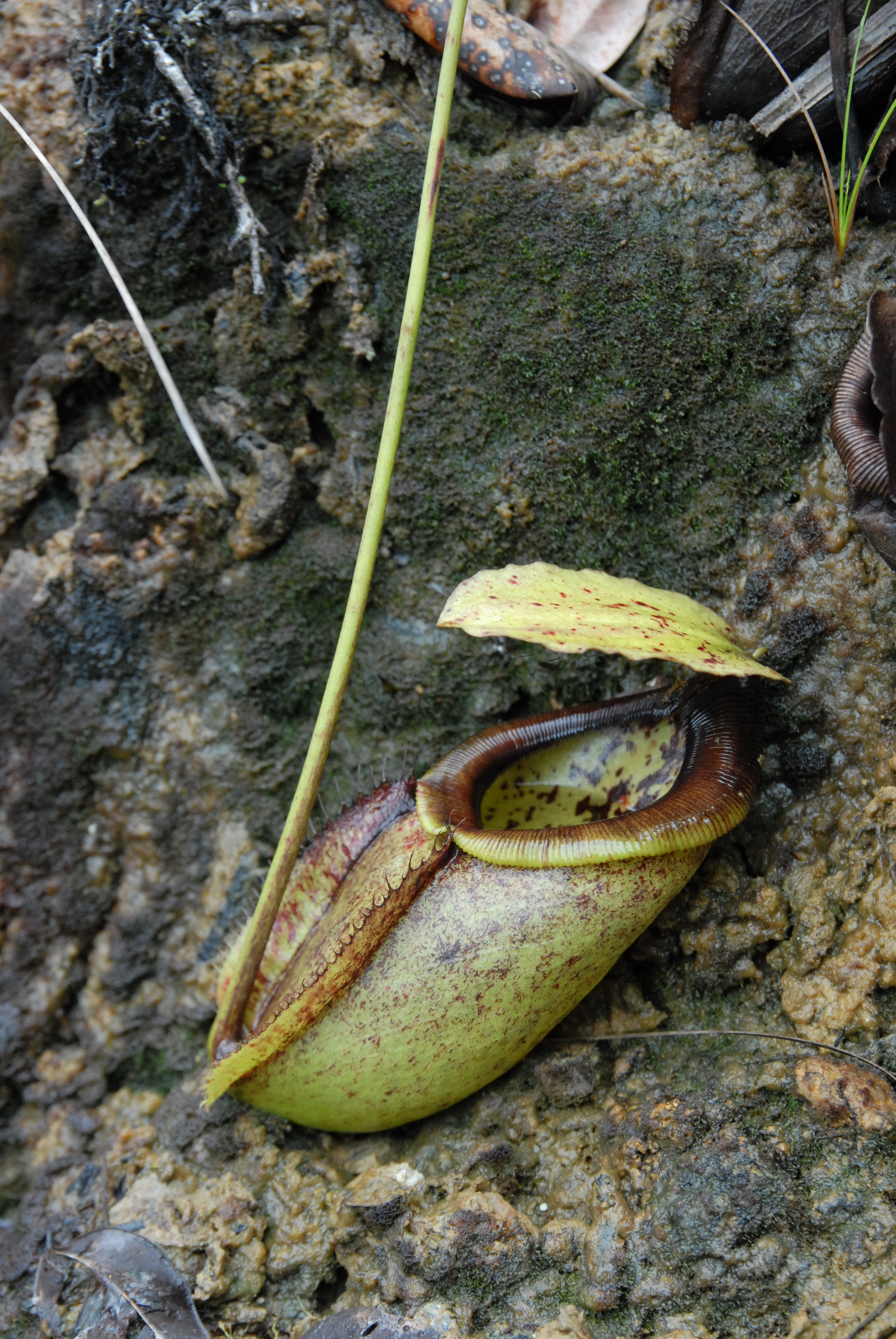 Nepenthes paniculata lower pitcher from the Doorman Massif, New Guinea